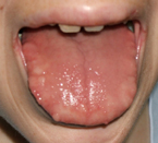 Multiple endocrine neoplasia, Type IIB (MEN-IIB) in 23-year-old woman An inherited, autosomal dominant disease characterized by medullary thyroid carcinoma, pheochromocytoma, and mucosal neuromas, associated at times with prognathism, puffy lips, and bony abnormalities. Both of these patients had surgically treated medullary thyroid carcinoma, neuromas of the tongue and lips, and prognathism. Neither, however, had any evidence, as yet, of adrenal disease.